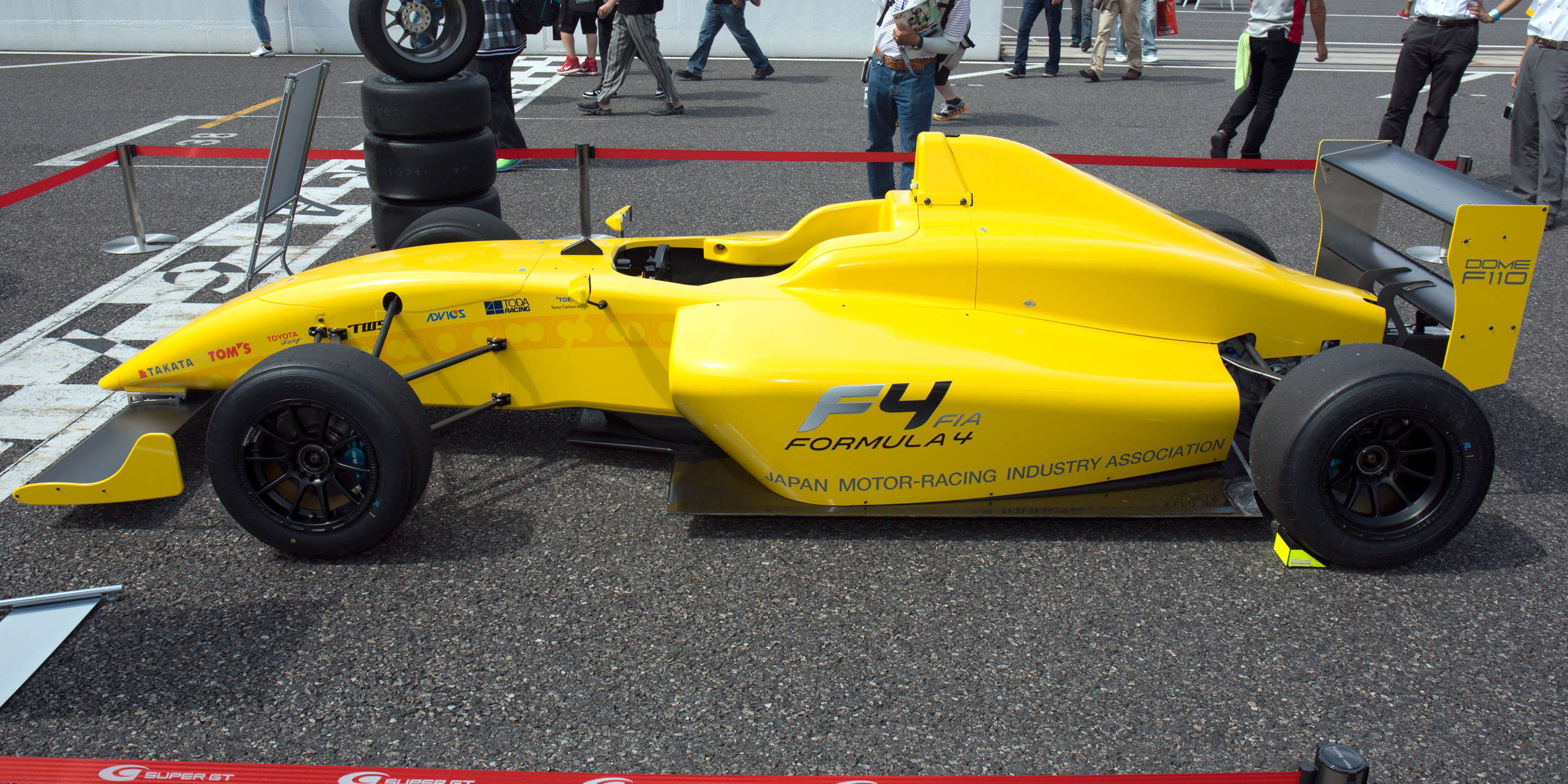 Super GT 2014 Rd.6 Suzuka 1000km: Dome F110